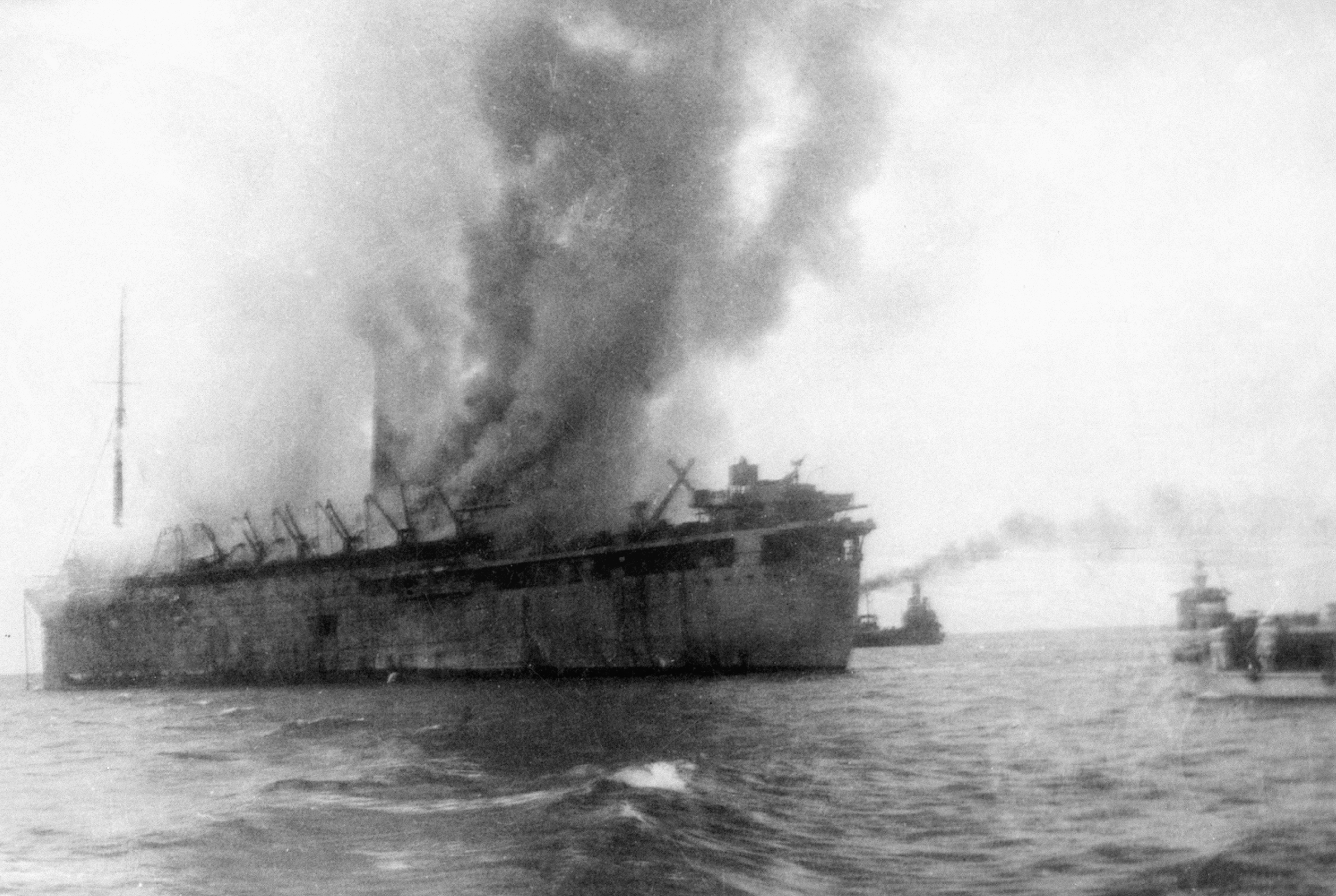 AWM Caption: Singapore. 1942-02-05. Starboard side view of the extensively damaged British transport the Empress of Asia and Navy rescue vessels. The transport was set on fire during a bomb attack by Japanese aircraft. It was one of four ships bringing the remainder of the 18th British Division, some other troops, and transport vehicles to the island. Most of the troops were rescued by the Navy, but nearly all their weapons and equipment were lost.